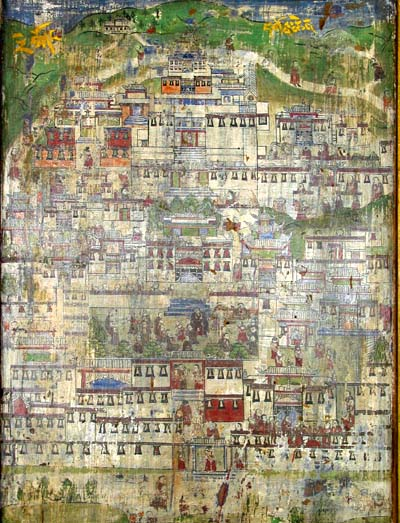 Monk in Rongwo Gönchen (Note: description for earlier upload, may not be accurate)